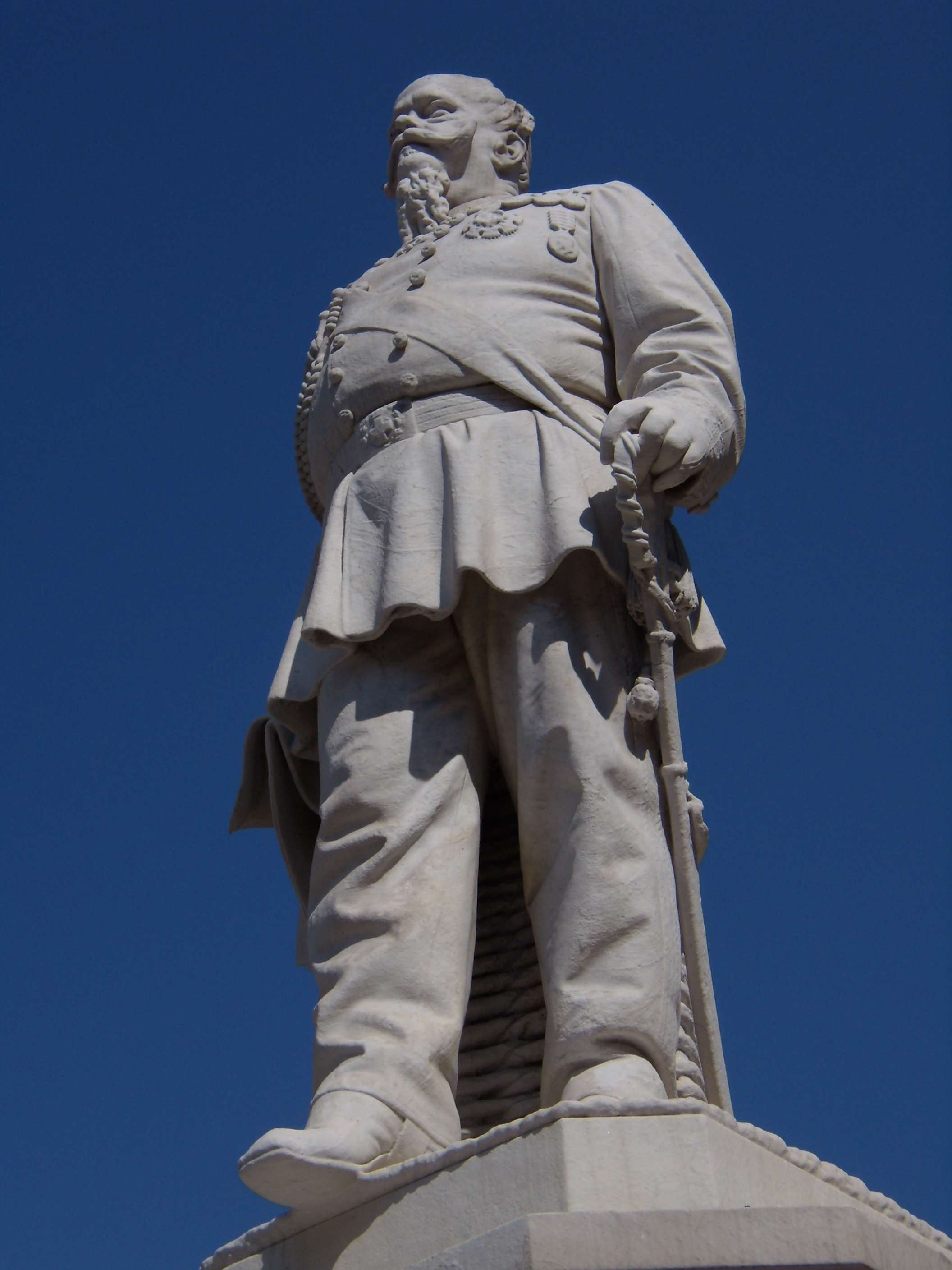 Rovigo (Italy): monument of Vittorio Emanuele II by Giulio Monteverde